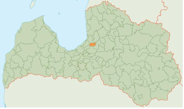 Map of Inčukalns